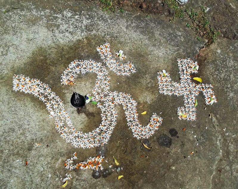 A flower decoration by Shefali flower (Nyctanthes arbor-tristis) in Ananta Basudeba deula, Bhubaneswar premises.